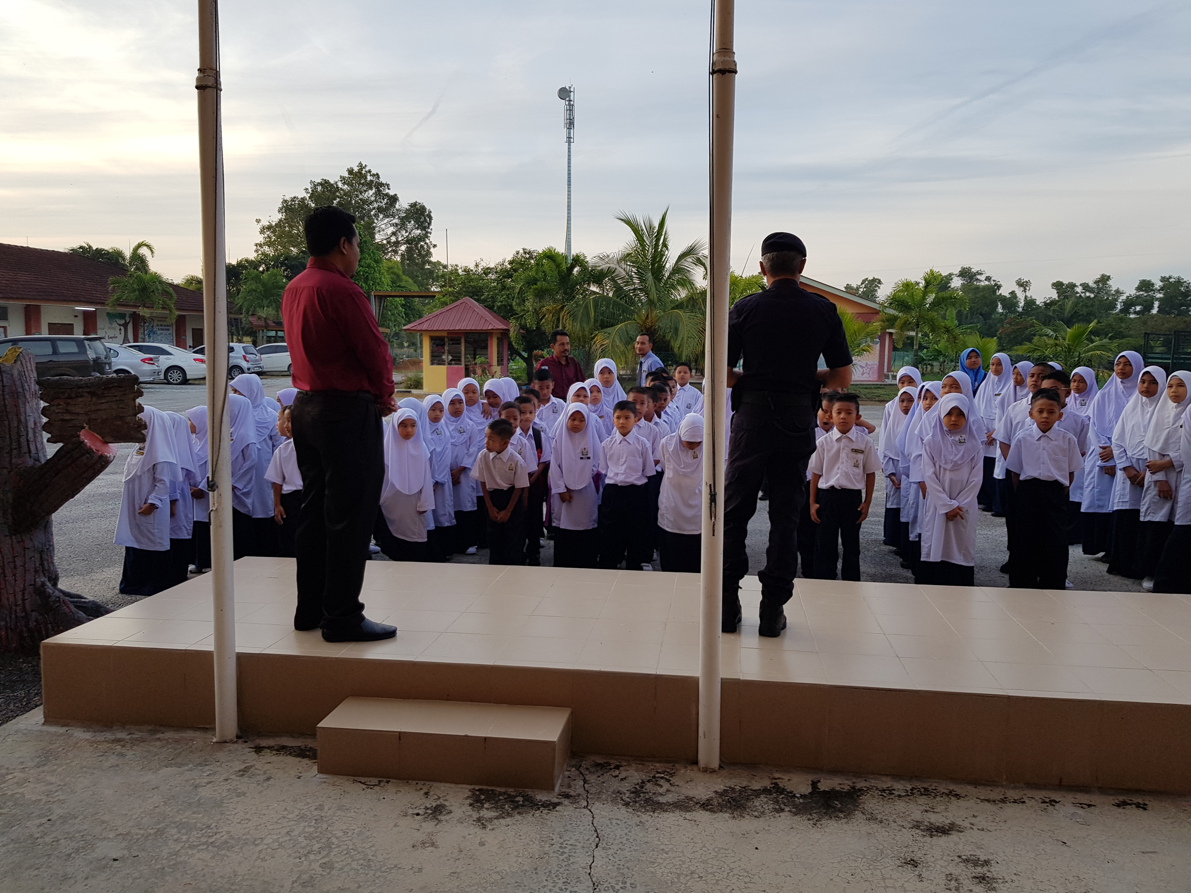 Morning assembly.